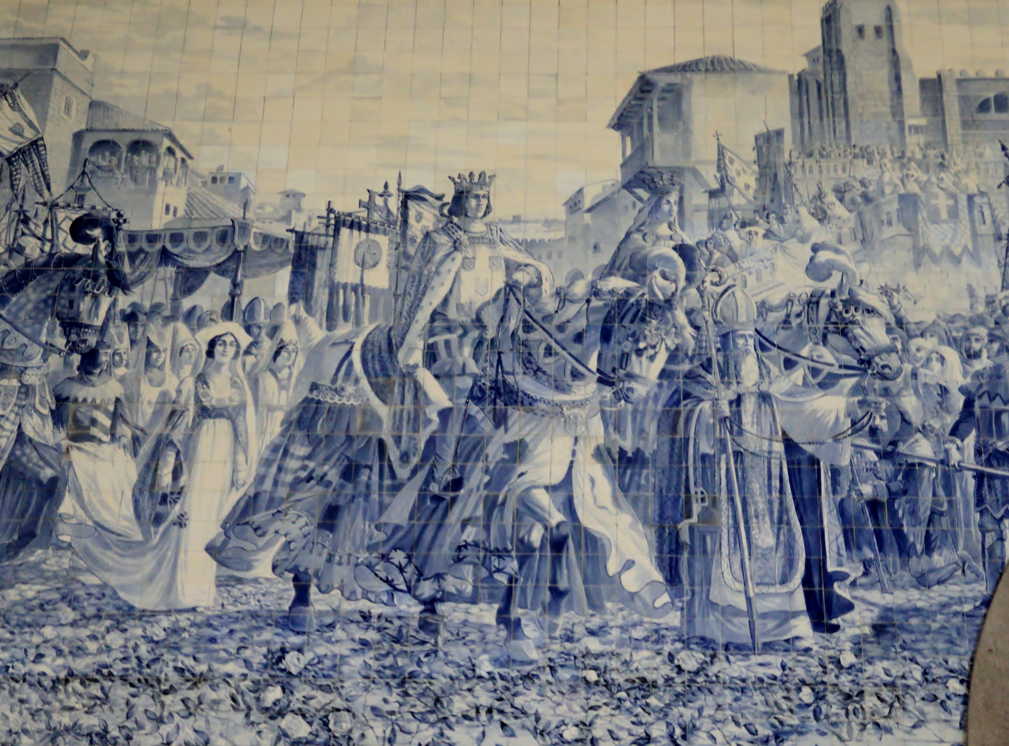 John I of Portugal comes to Porto for his wedding with Philippa of Lancaster (XIV century). mosaic at Estação de São Bento, Porto, by Jorge Colaço (1864-1942)